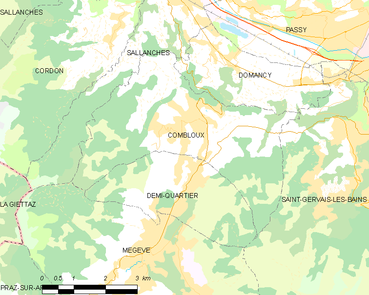 Map of French municipality Combloux